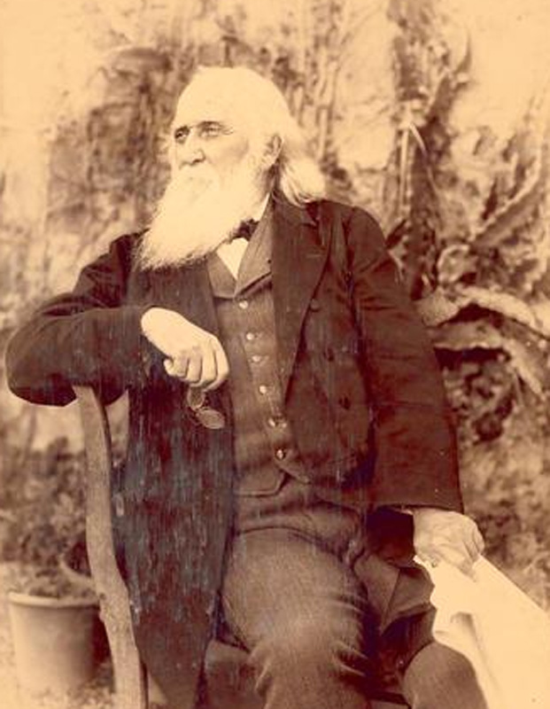 Sir John Robertson, Premier of New South Wales, circa 1890